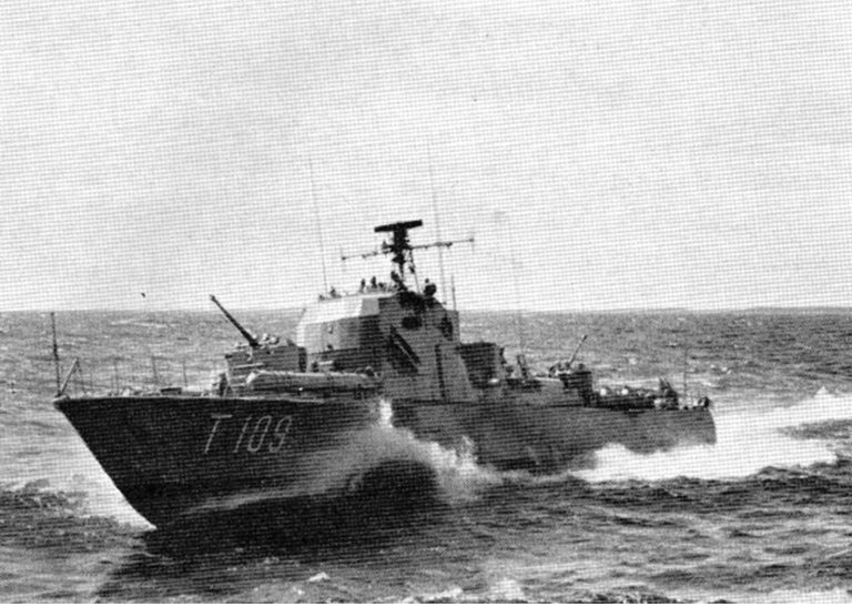 Swedish Torpedo Boat T109 Antares